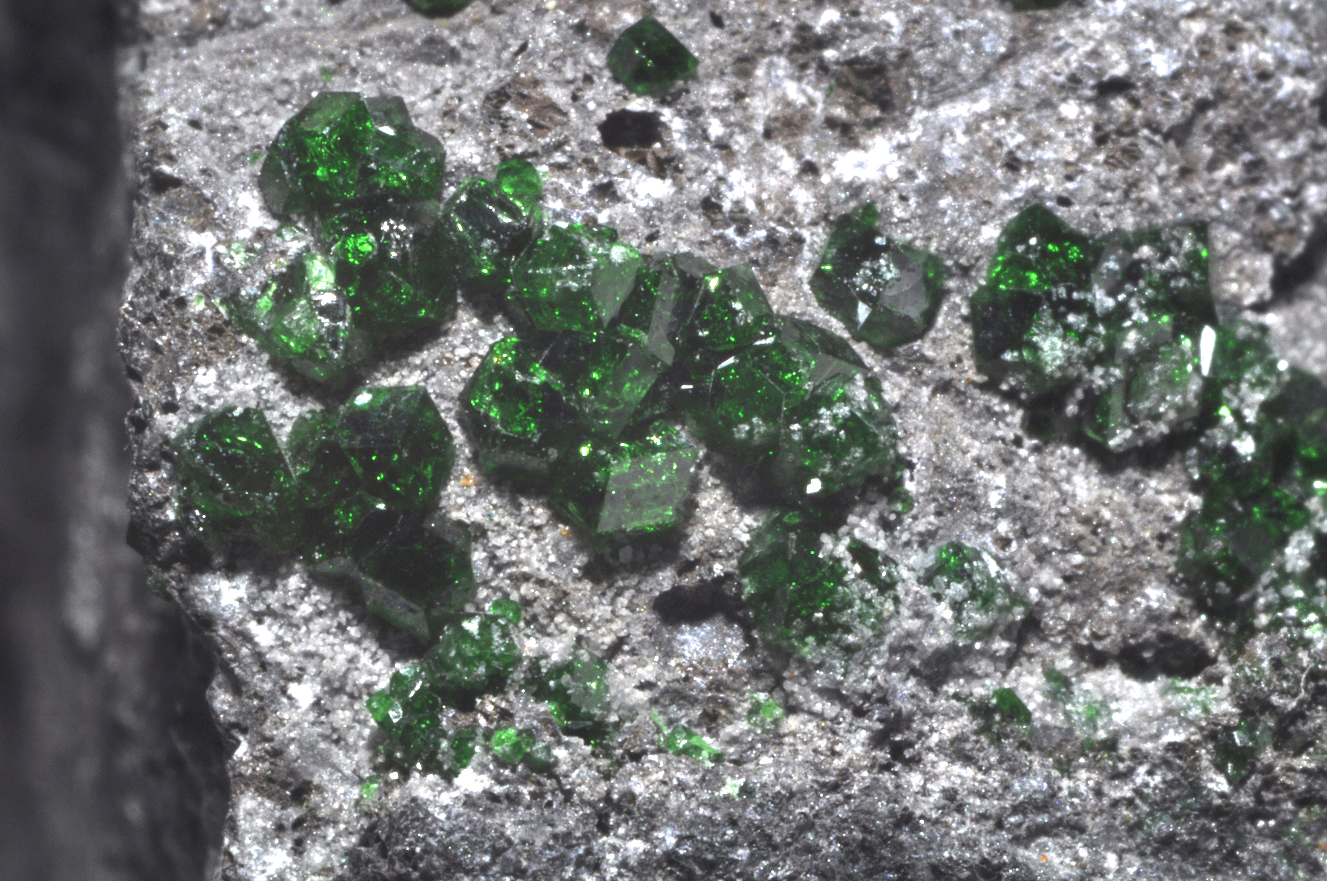 Crystals of uvarovite